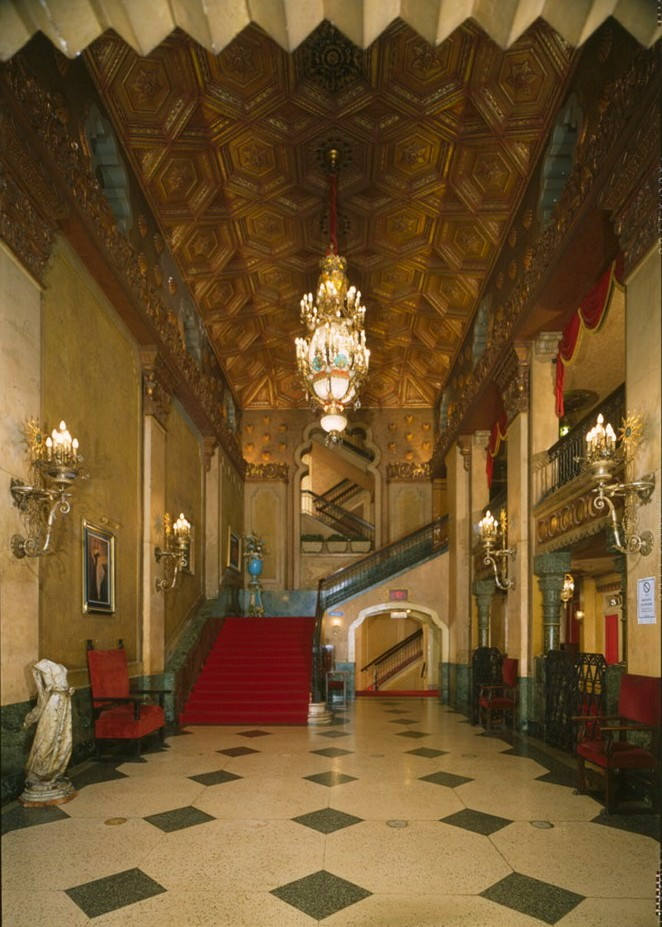 Lobby — Alabama Theatre. 1811 Third Avenue North, Birmingham, Jefferson, AL.